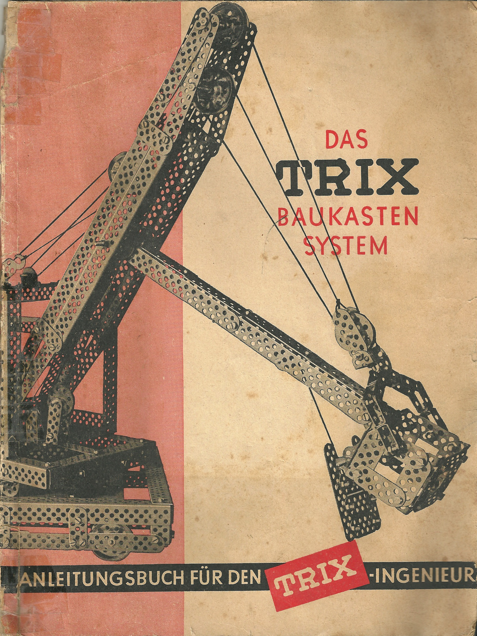 Trix instruction book for the TRIX engineer about 1960